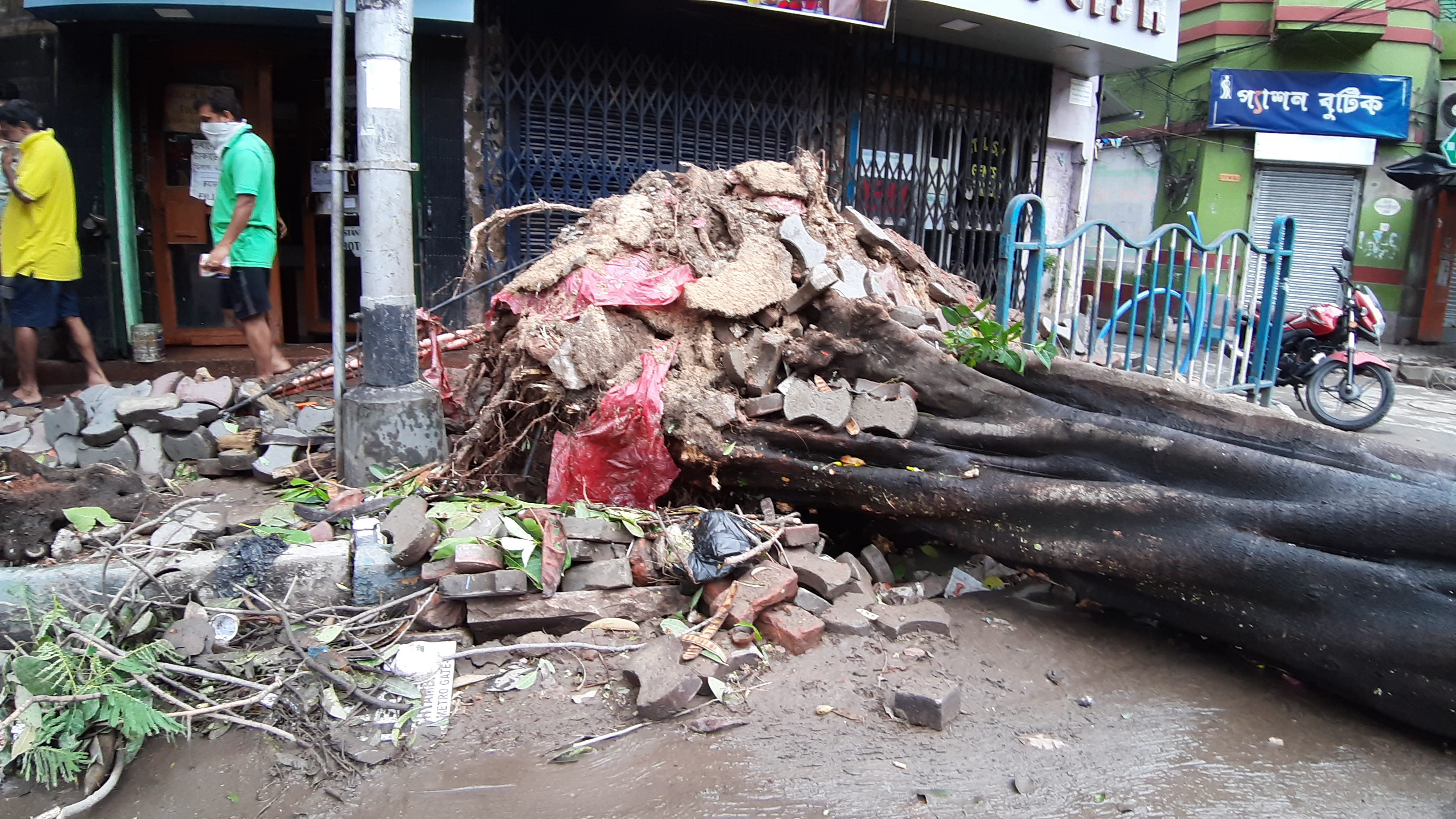 Situation of kolkata after Amphan Cyclone.